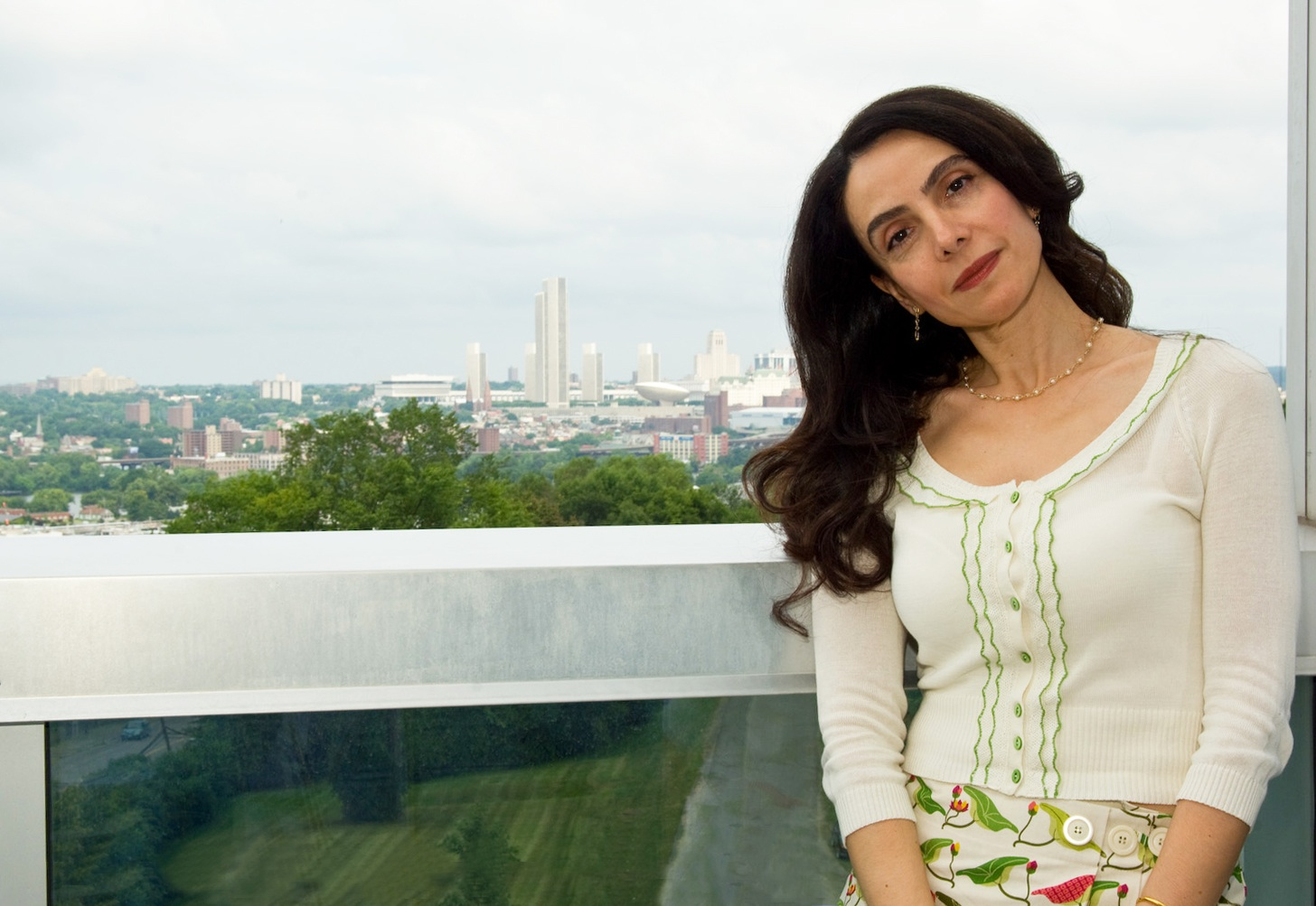 Roxana Moslehi at the Cancer Research Center at SUNY East campus